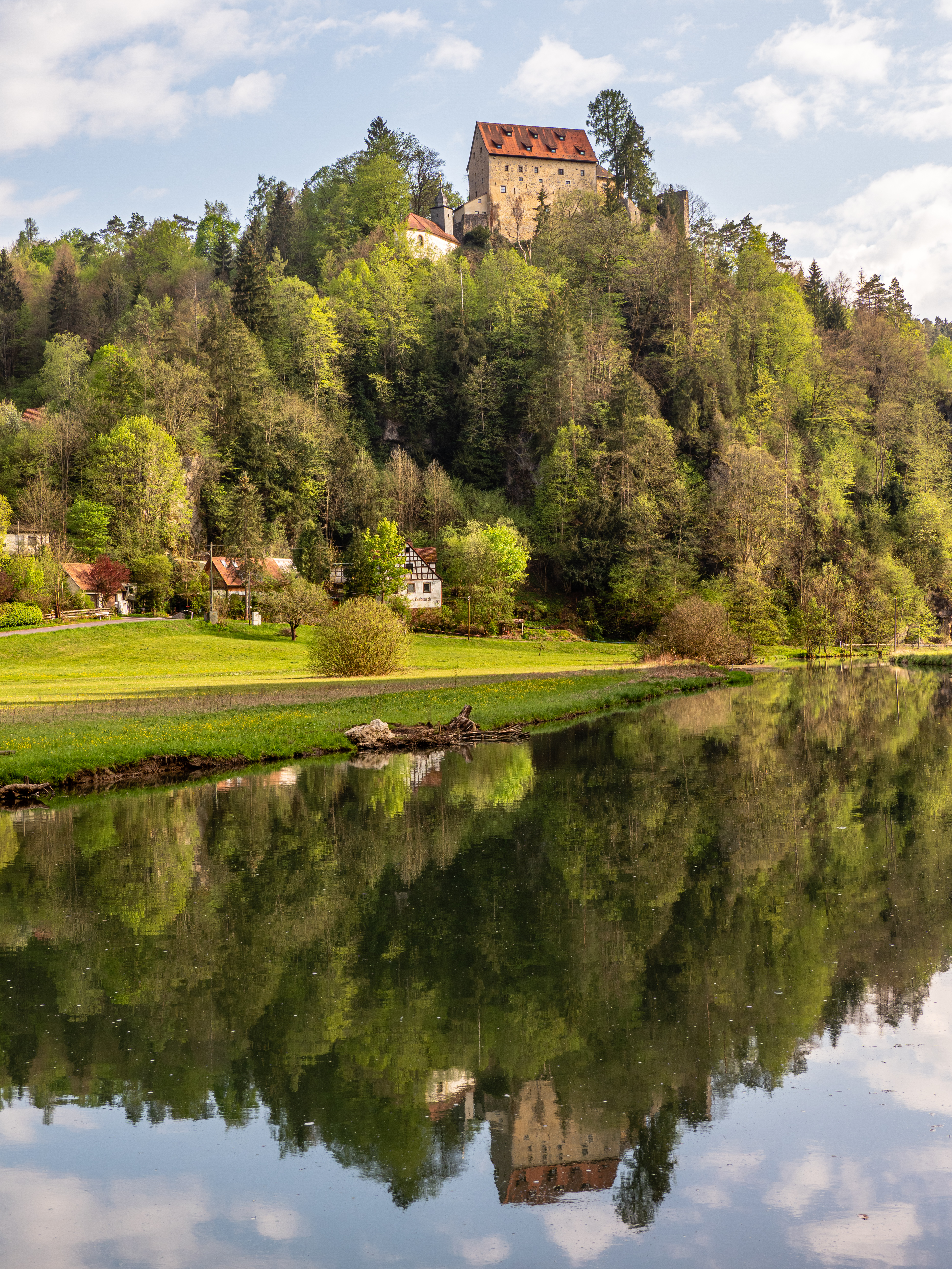 Rabeneck Castle with chapel above the Wiesent valley